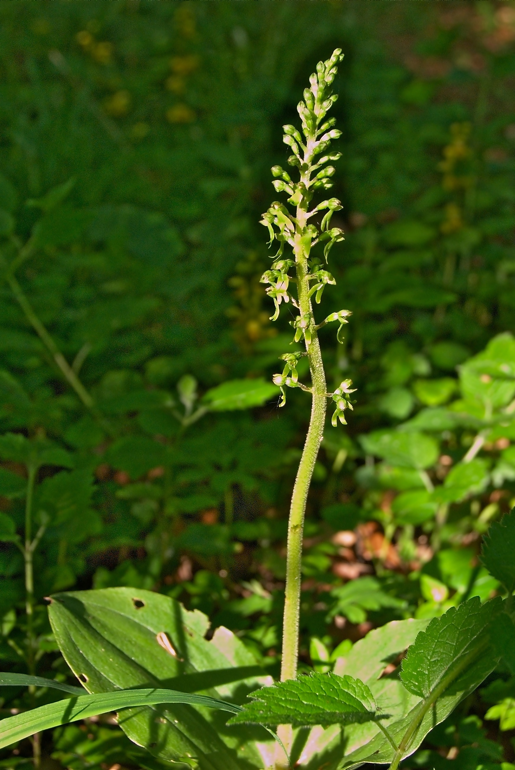 Name: Listera ovata. Family: Orchidaceae. Location. Münster, NRW, Germany